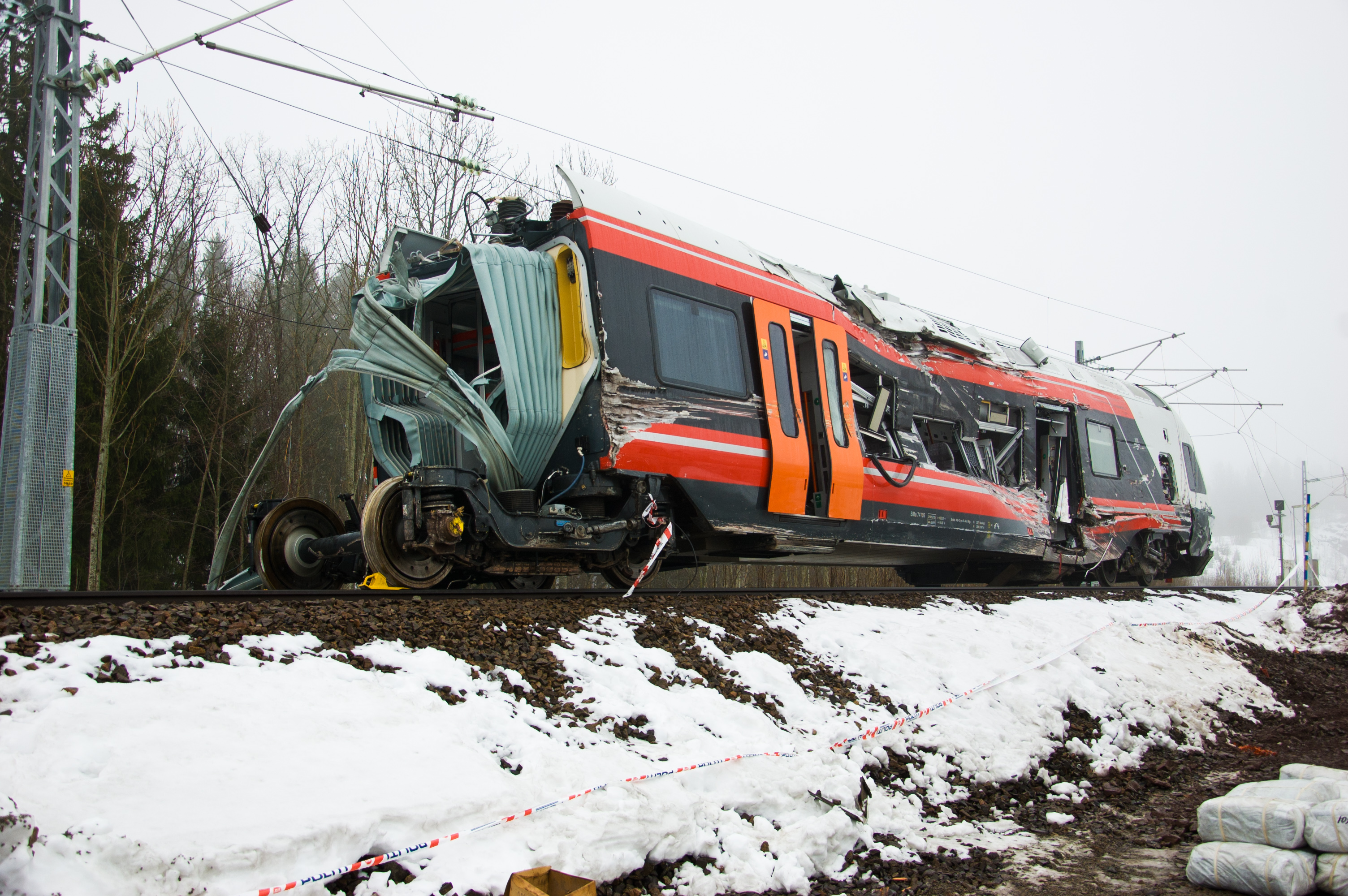 A brand new NSB train derailed at Tangenbekken in Re, Vestfold, Norway on February 15th, 2012.